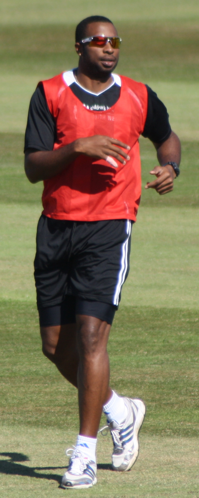 Kieron Pollard warming up for Somerset prior to a FPt20 match against Essex at the County Ground, Taunton.